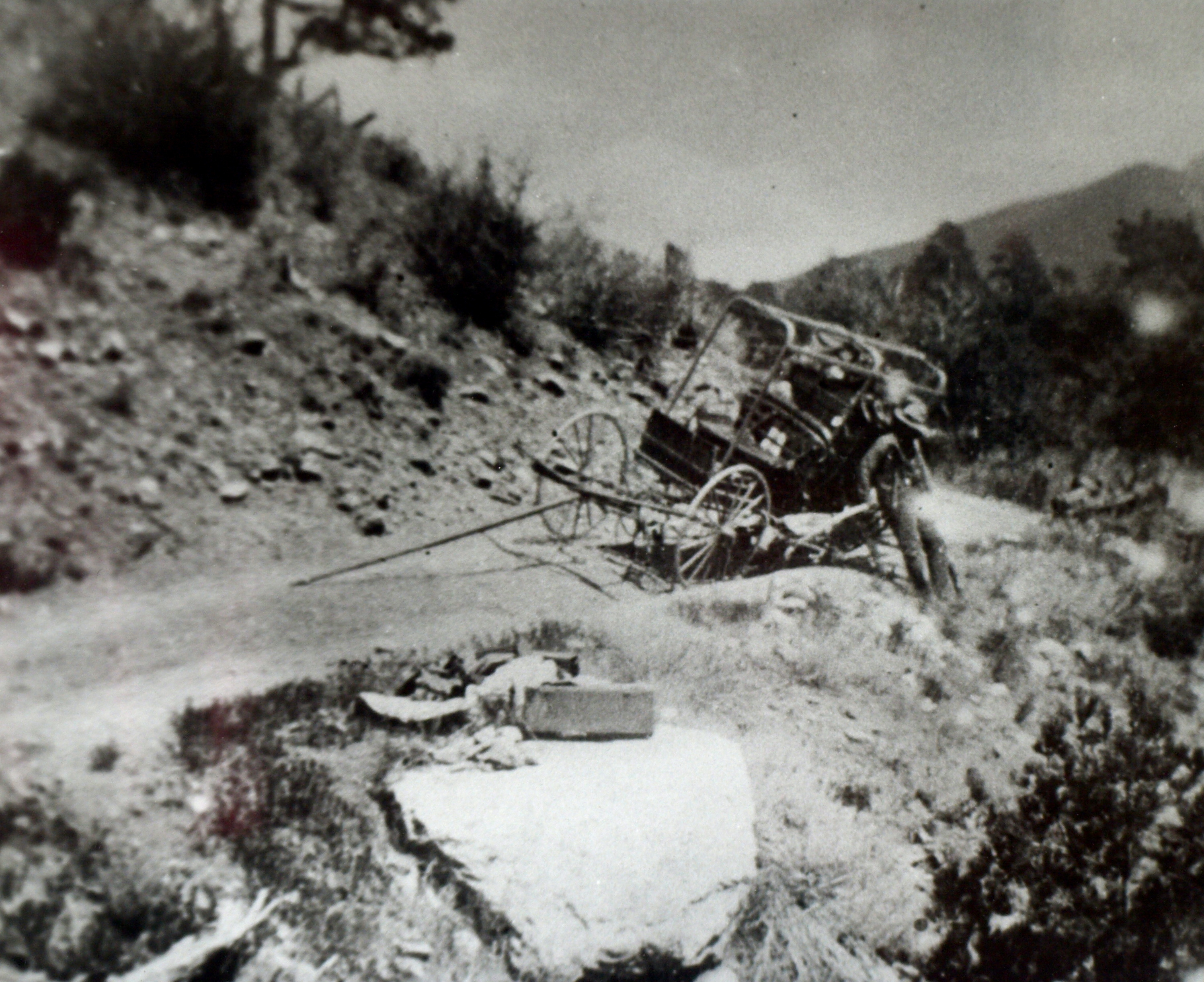 The accident that started the Taos Art Colony. Photograph of the wagon with a broken wheel near Taos, NM. Based on another photo of the same wagon with Blumenschein (who was wearing a different hat), the man in this photo is most likely Bert Phillips; thus this photo was probably taken by Blumenschein.